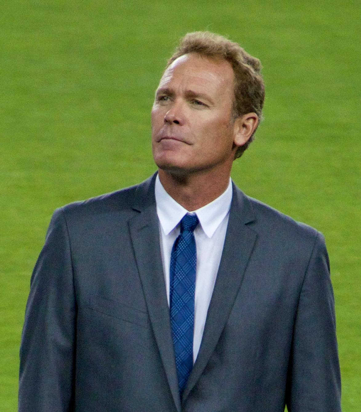 John Doyle being honored at Levi Stadium half-time celebration, inaugural game at Levi Stadium, San Jose Earthquakes vs Seattle Sounders